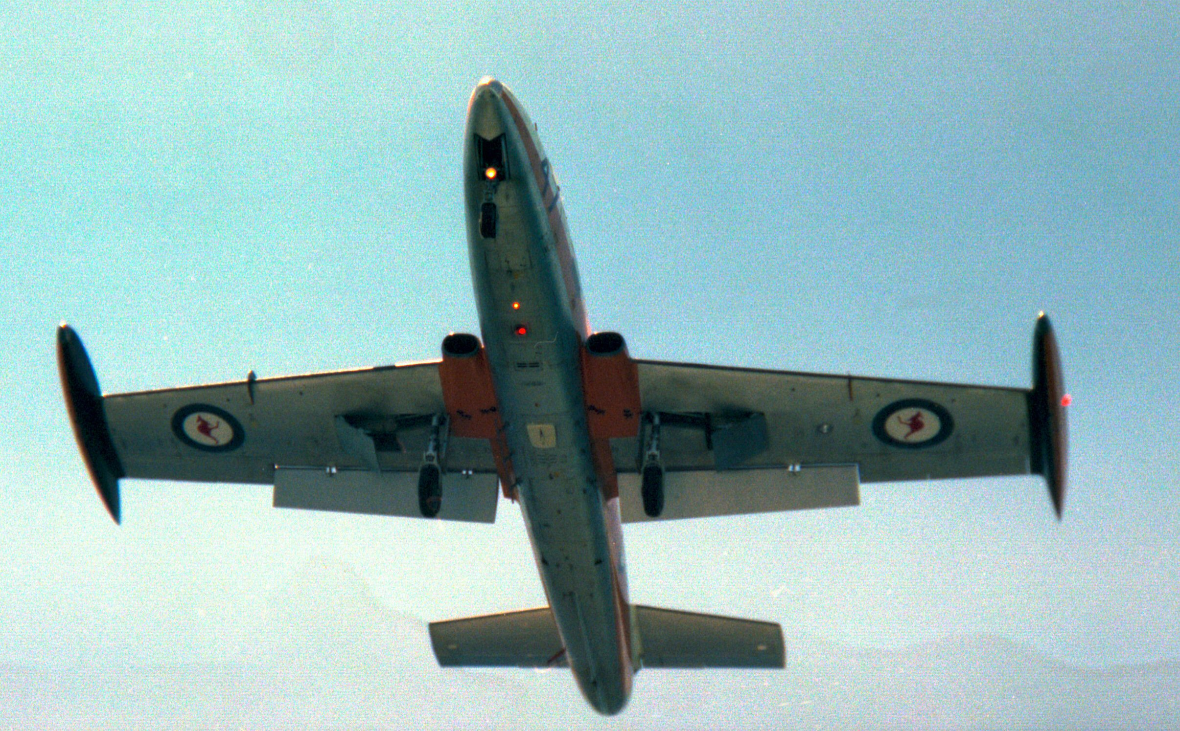 An RAAF Macchi MB-326, off Fremantle during a flypast of Australian aircraft carrier HMAS Melbourne, circa August 1980